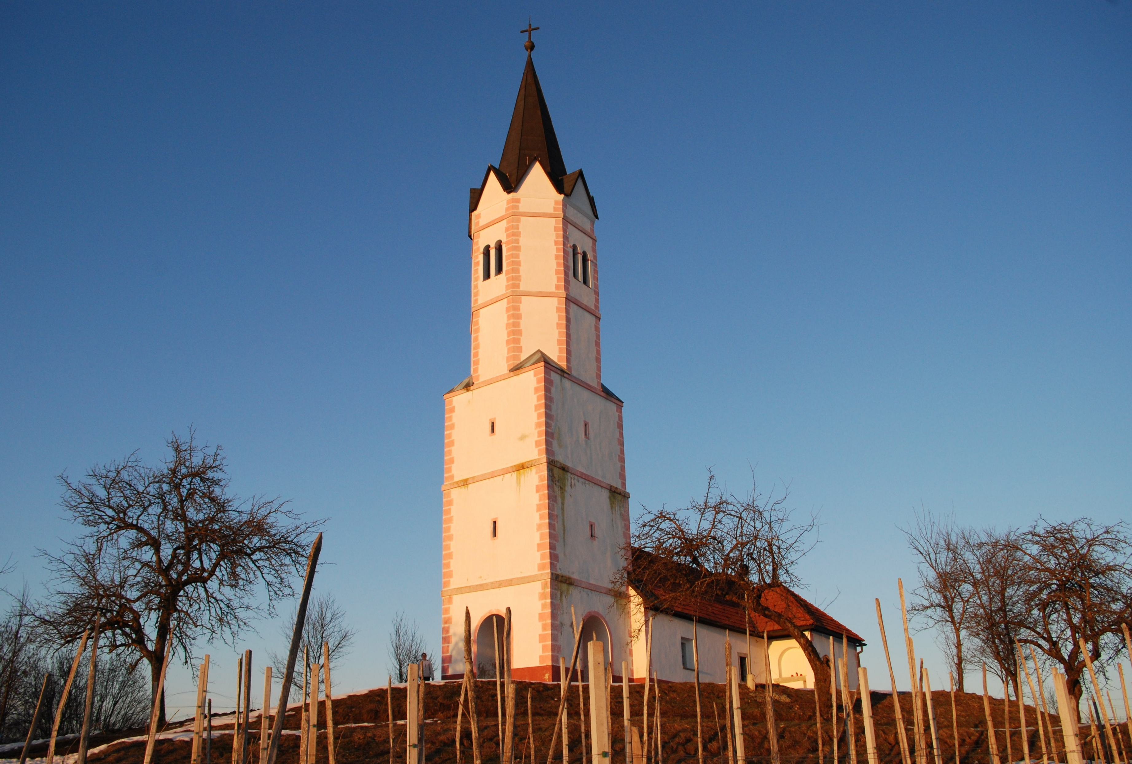 St. George's Church. Kaplja Vas, Municipality of Sevnica (Slovenia). Correctly oriented. The church tower was built in the 17th century (the nave is Romanesque, the presbyterium is Gothic).